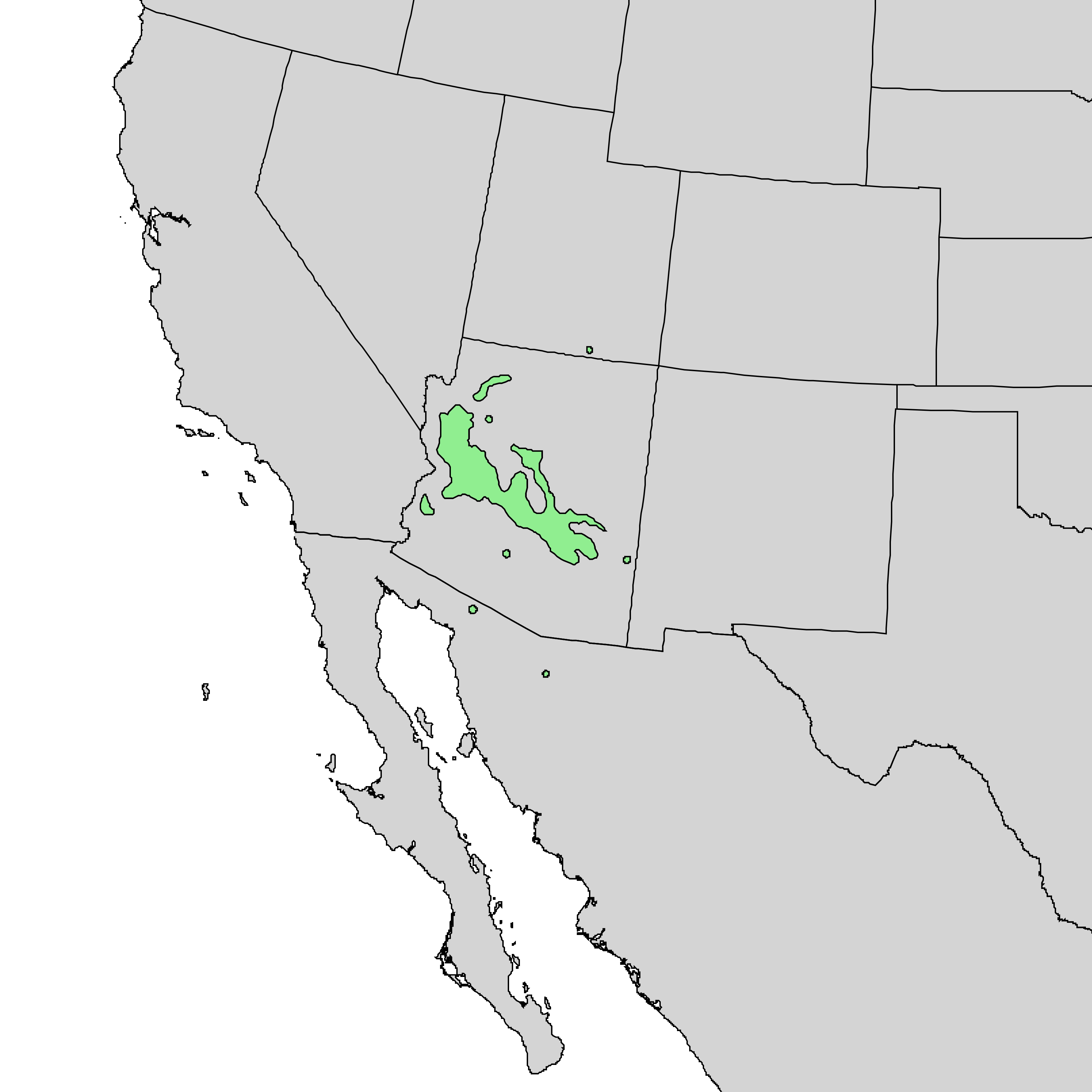 Natural distribution map for Canotia holacantha (crucifixion thorn)